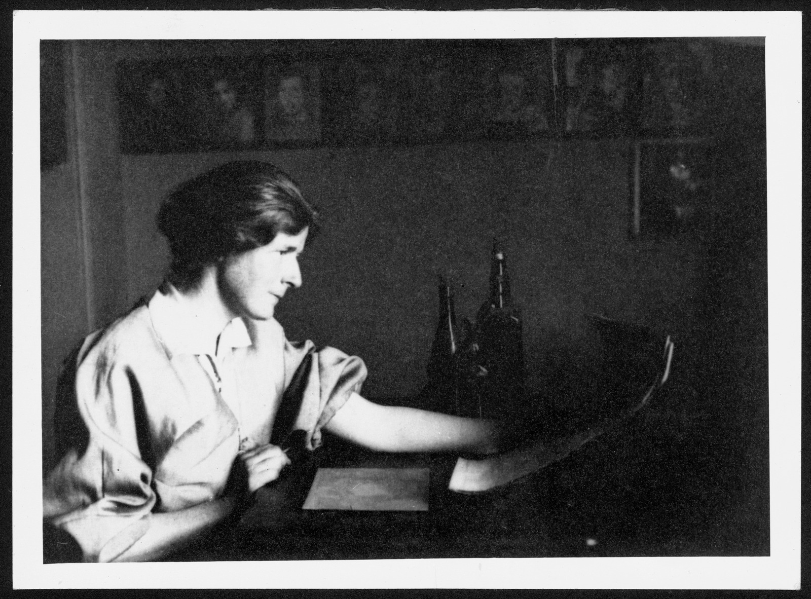 shows Jessie Traill proofing an etching by subdued light